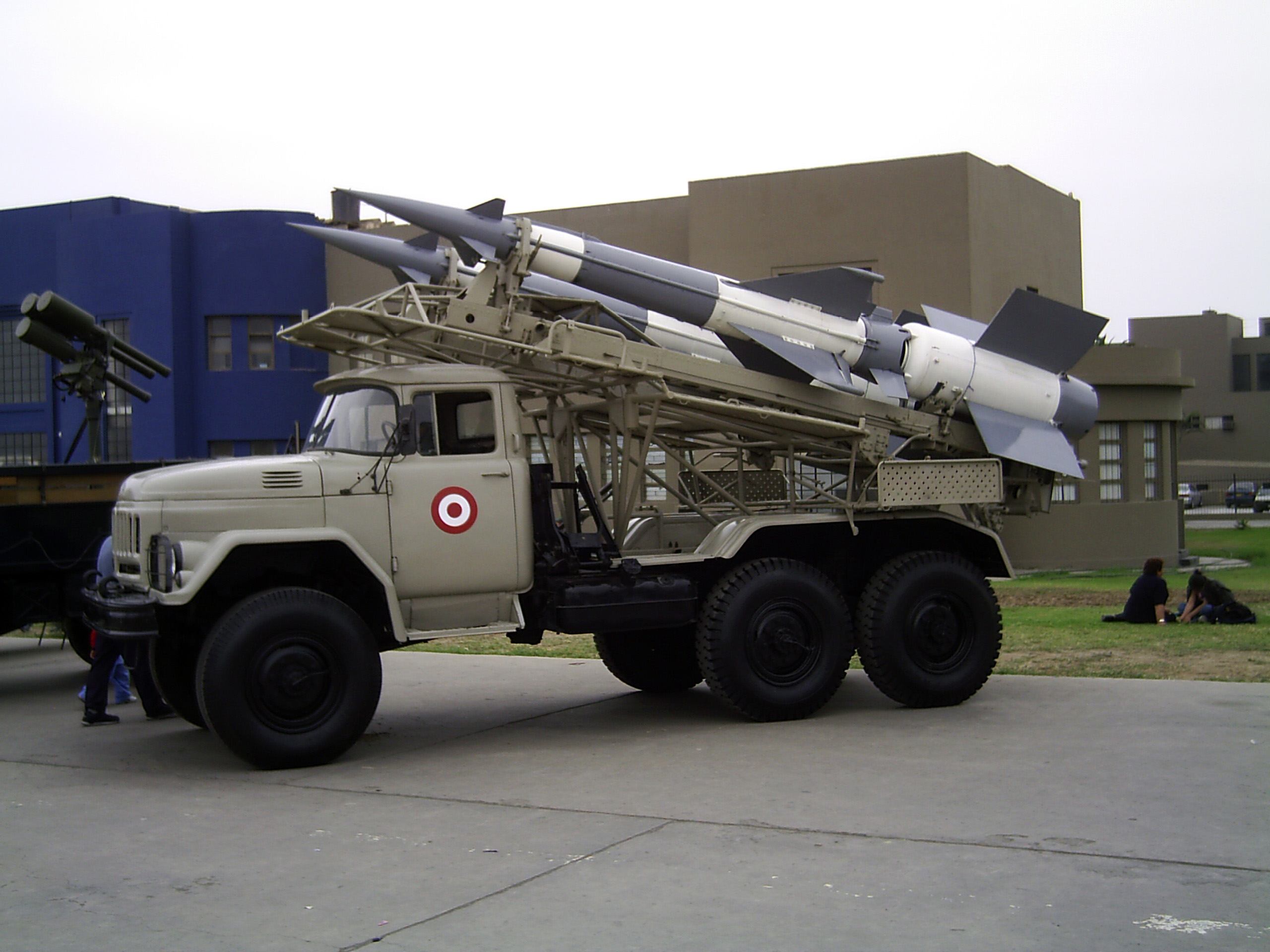 SA-3 Pechora SAM on display at Las Palmas Airbase in 2006.